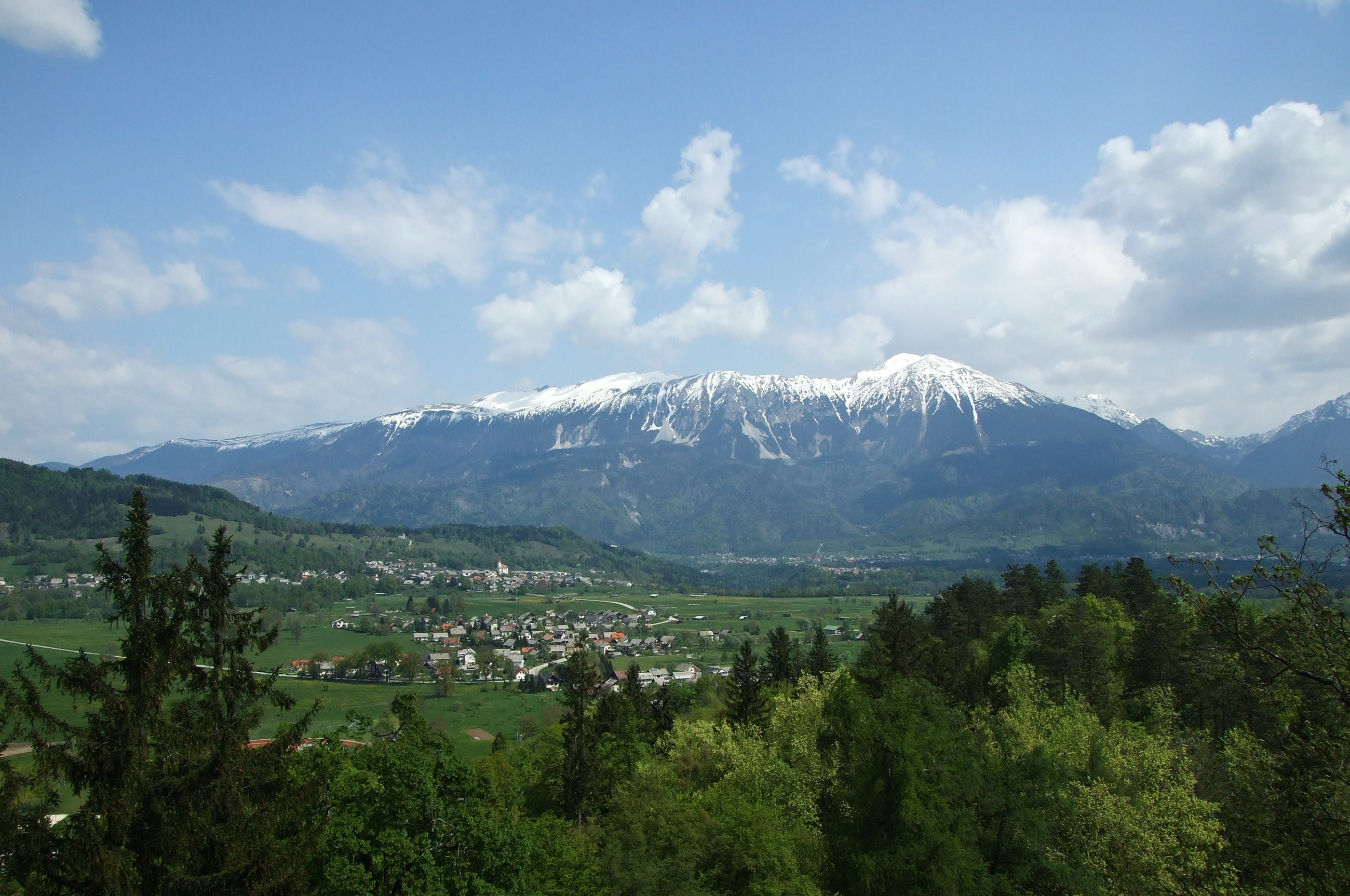 Veliki Stol Mountain, part of Karavanke range, as seen from the Bled Castle, Slovenia. The highest peak Stol (Hochstuhl) with its 2,236 m (7,336 ft) can be seen on the right. In the foreground the suburbs of Bled town can be also seen as well as Zasip village with its Parish Church of Saint John the Baptist. The Sava Dolinka valley spreads between the settlements and the mountain. The mountain ridge defines the border between Slovenia and Austria.